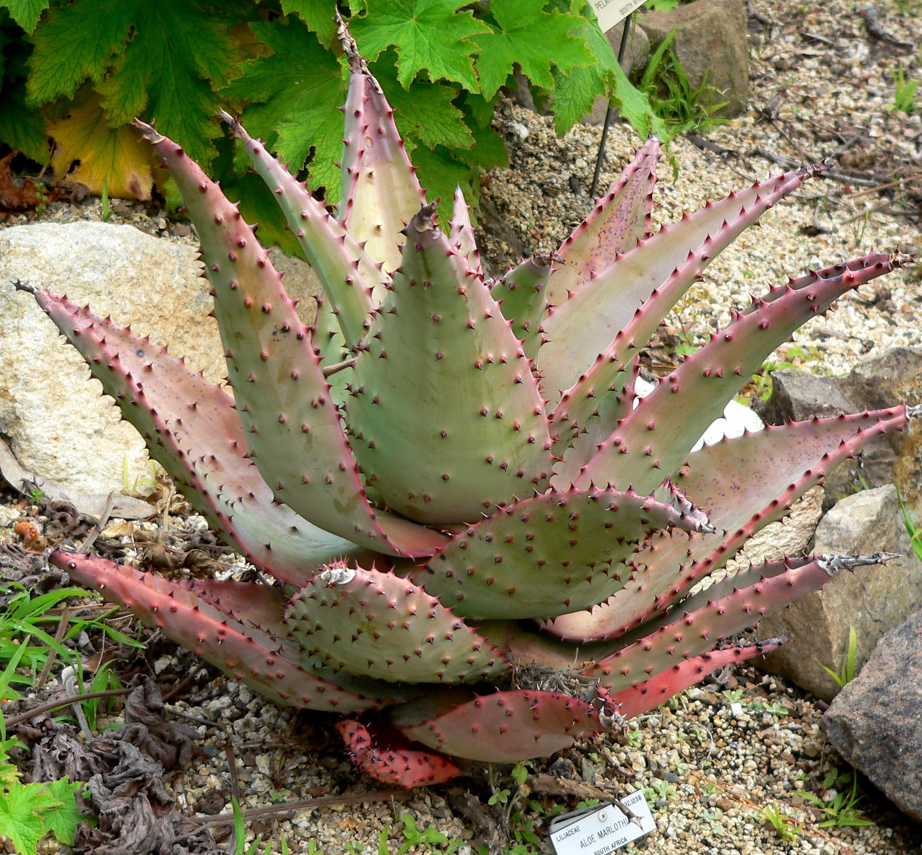 Photo of Aloe marlothii at the University of California Botanical Garden